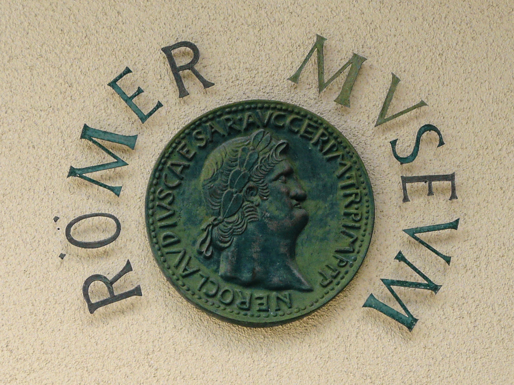 Logo of roman museum in Grabenstätt, district Traunstein, Upper Bavaria